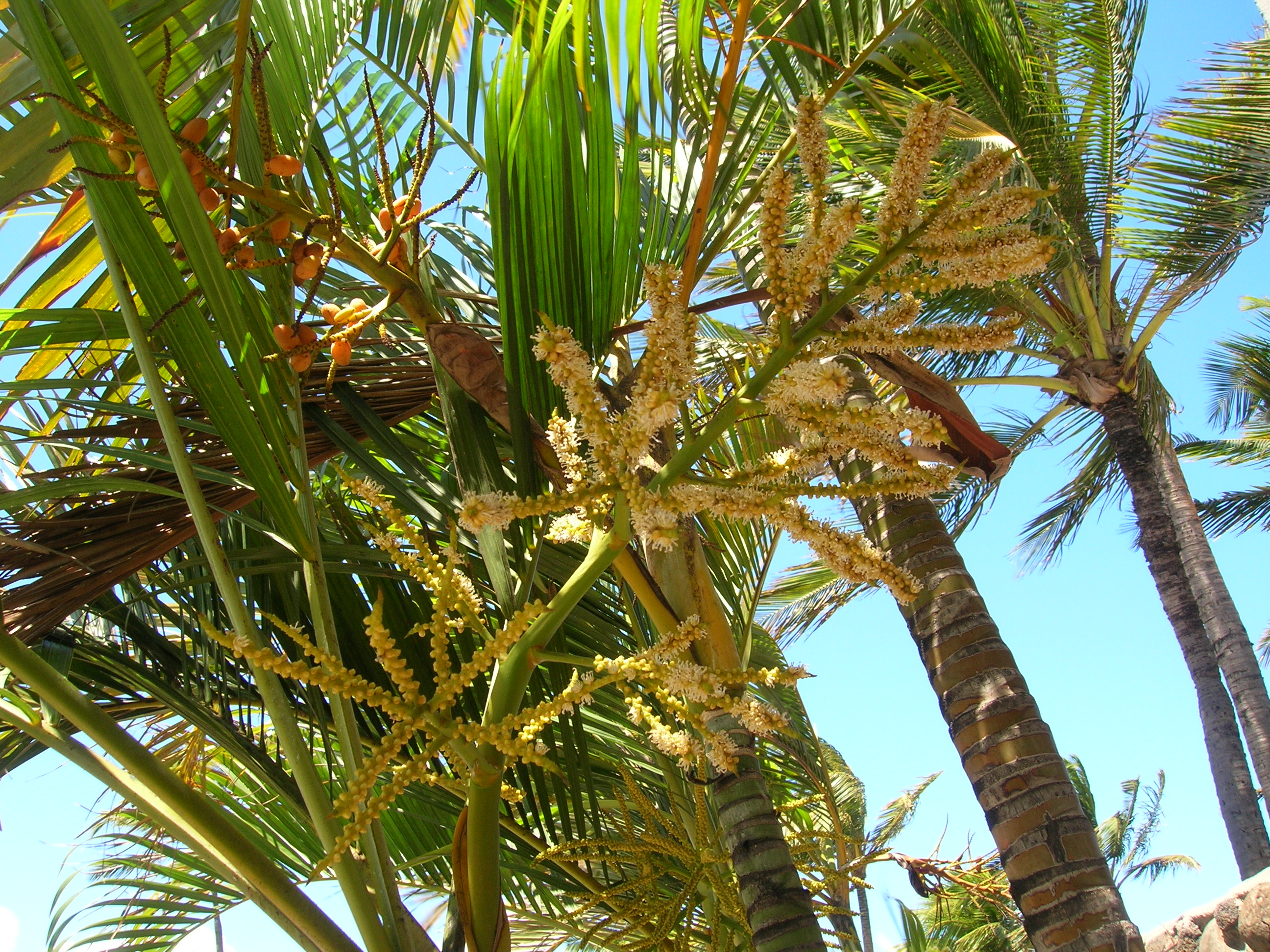 Chrysalidocarpus lutescens (flowers). Location: Maui, Kahului Airport